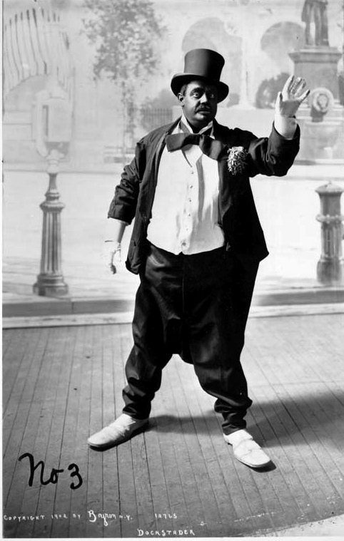 Vaudeville star Lew Dockstader in 1902, wearing blackface and top hat, standing in front of a theater backdrop.